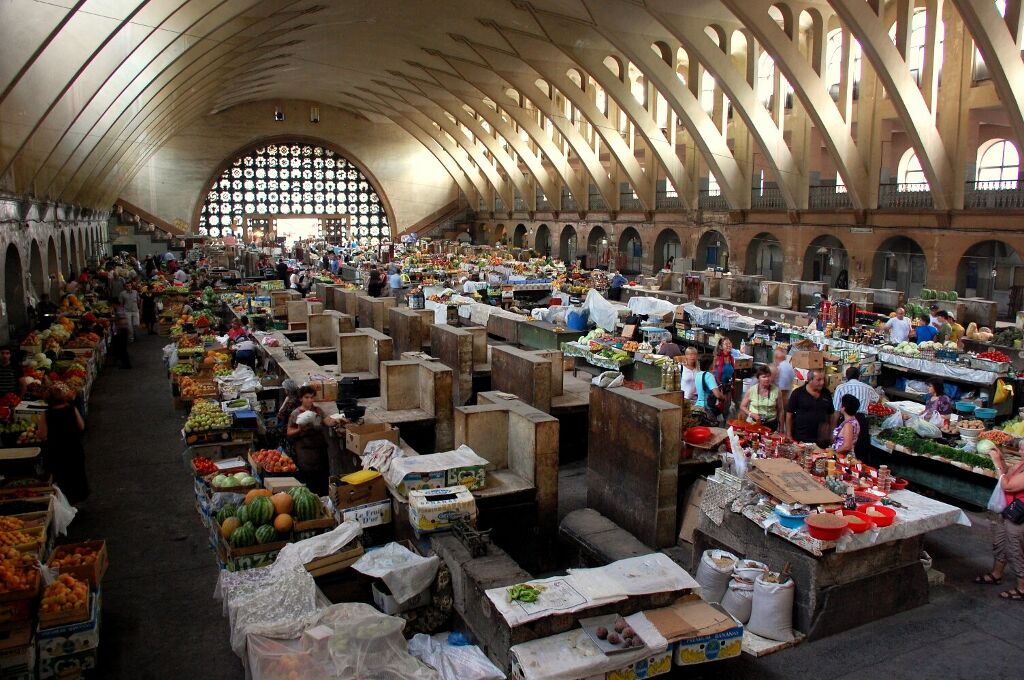 Yerevan market during day, Armenia